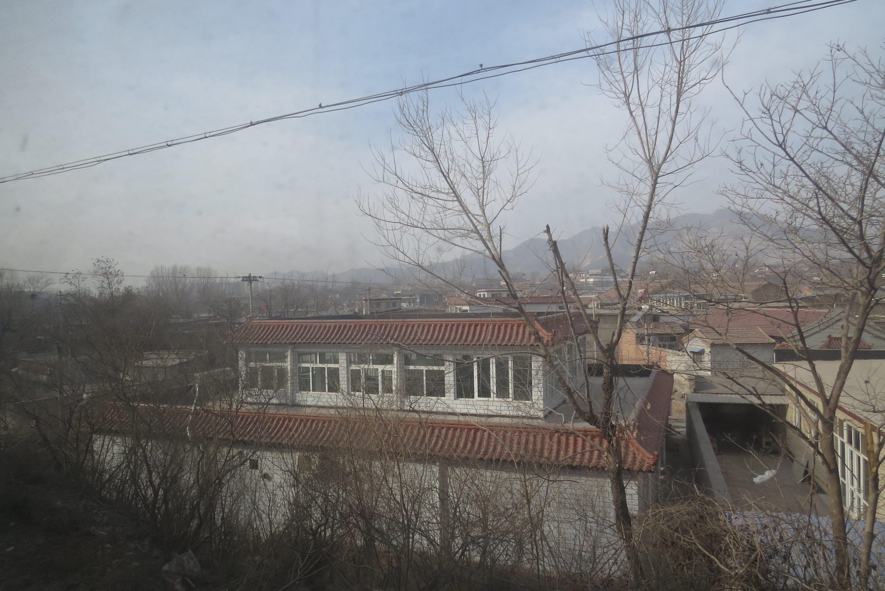 Dahuichang, literally "Great Lime Factory".